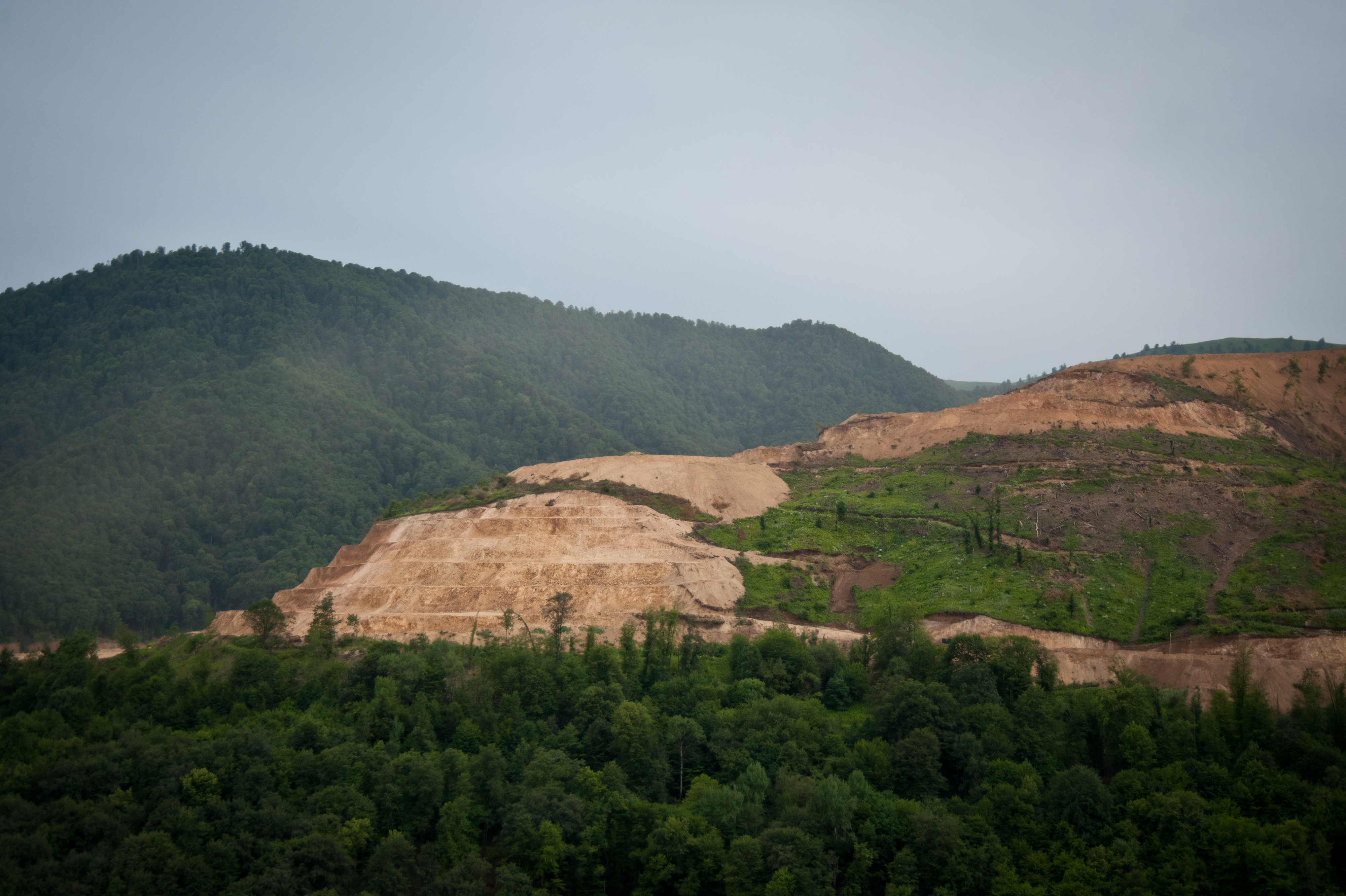 Destruction of the old-growth forest at the village of Teghut by Vallex Group to construct an open-pit copper and molybdenum mine: Teghut Mine.